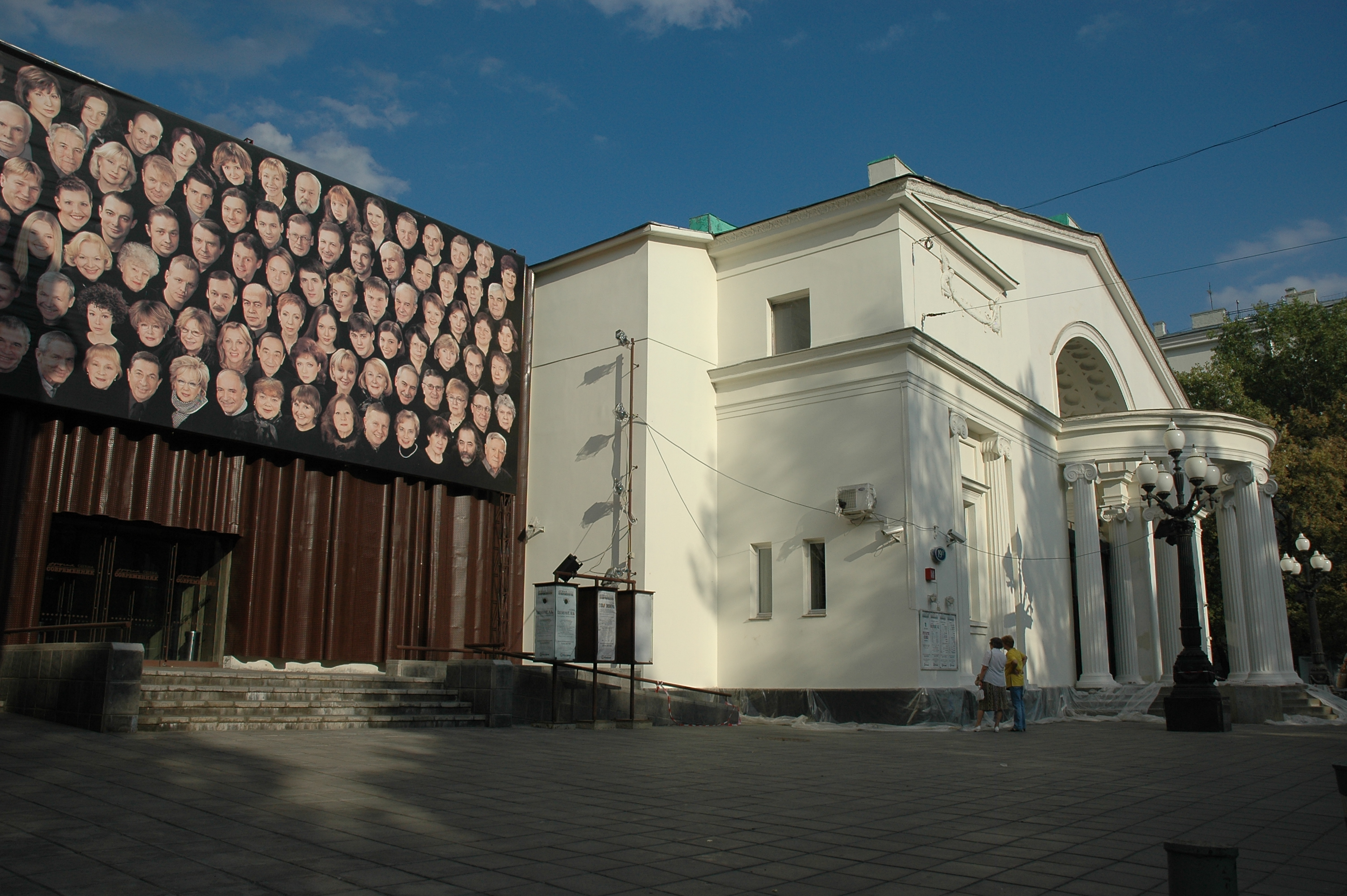 Sovremennik theatre, Moscow